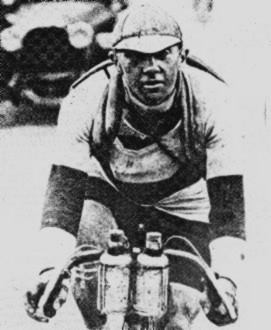 Honoré Barthélemy (September 25, 1890 – May 17, 1964) was a French road bicycle racer who took part and finished fifth overall and won four stages in the 1919 Tour de France.